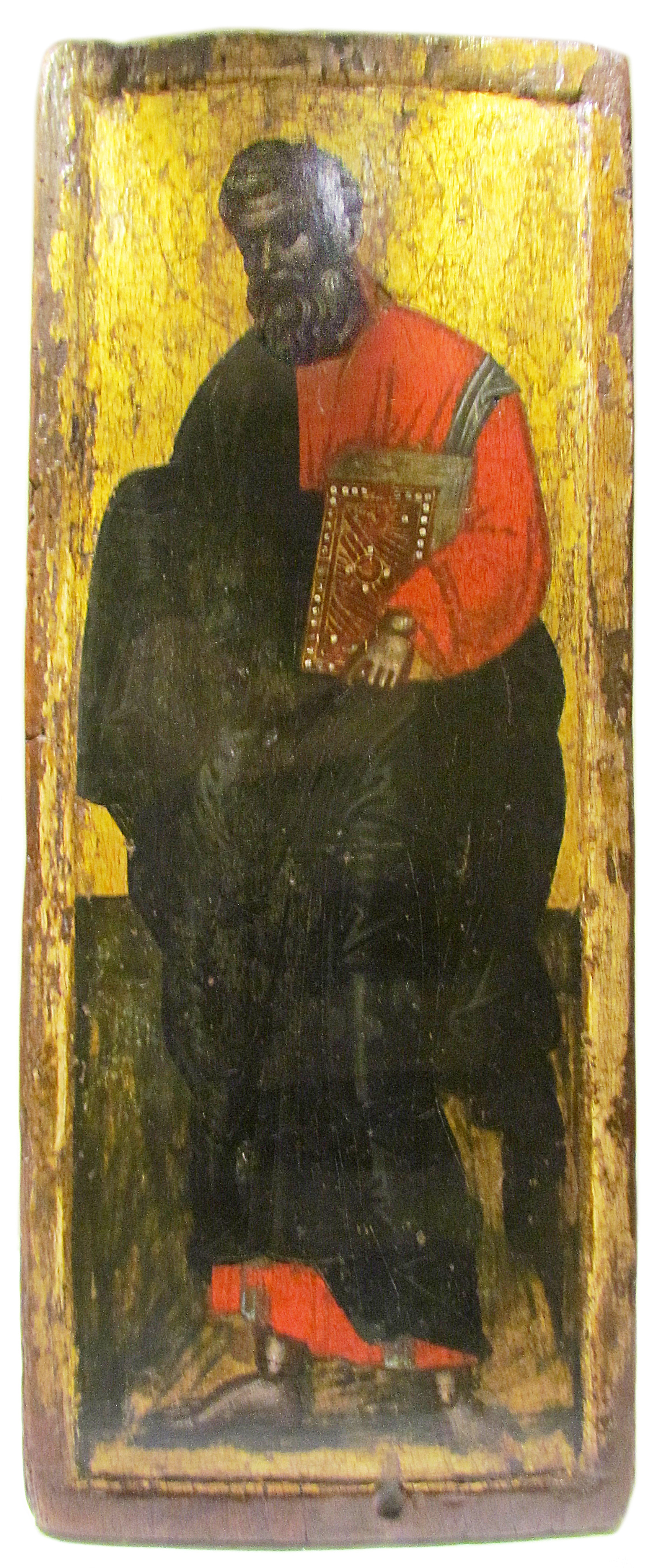 Saint Matthias, orthodox icon